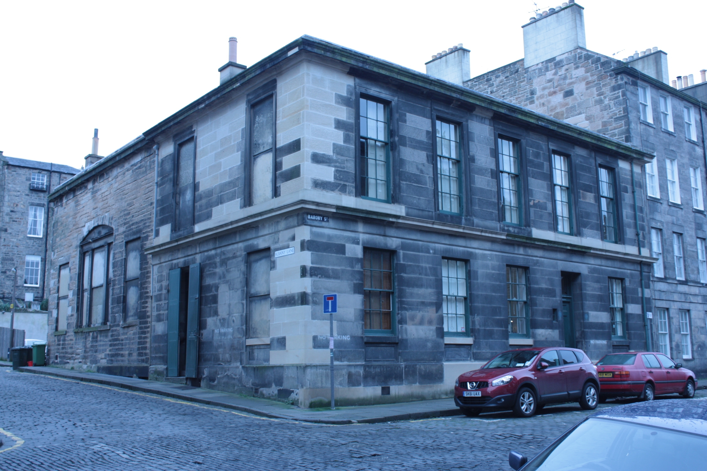 Glasite Meeting House by Alexander Black (architect)